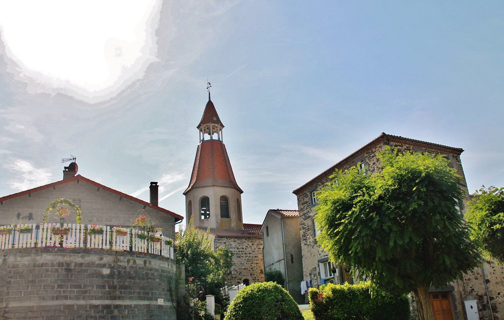 église St Gal